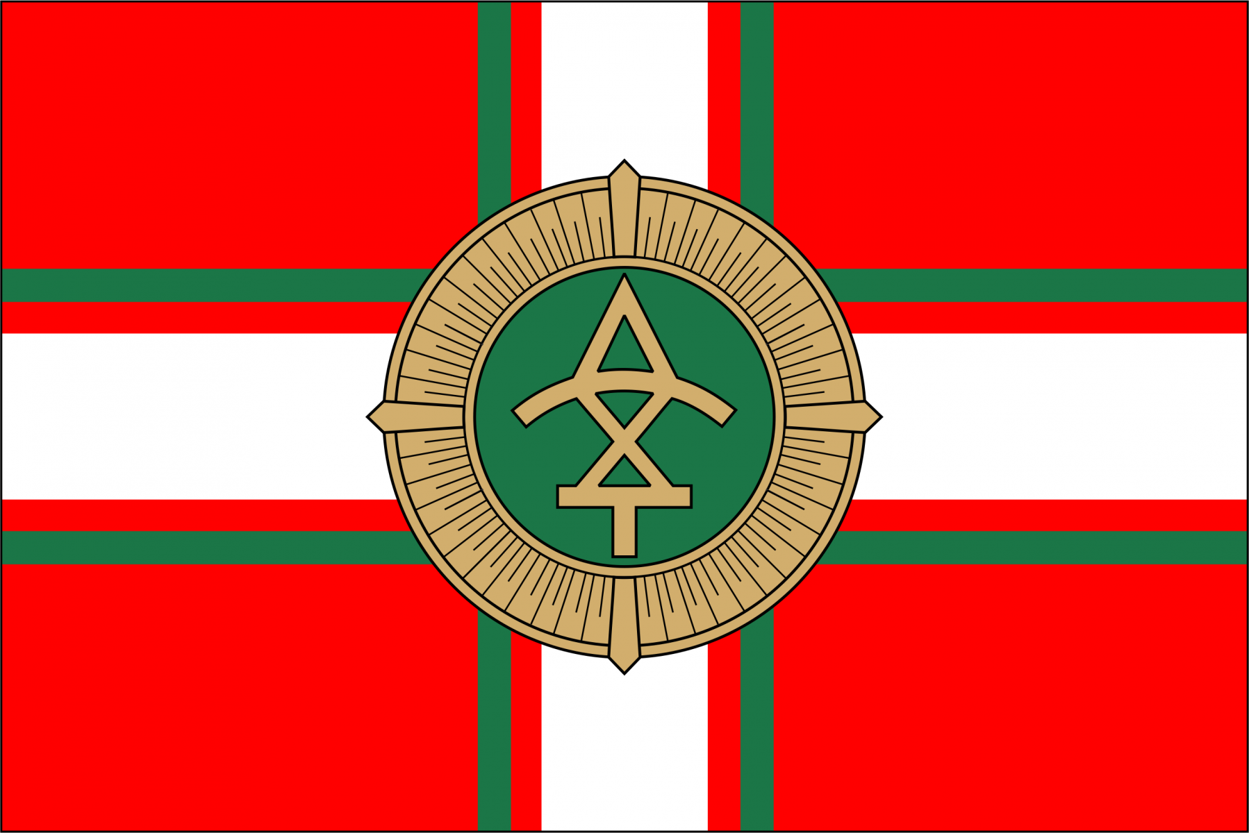 Georgian Border Police flag